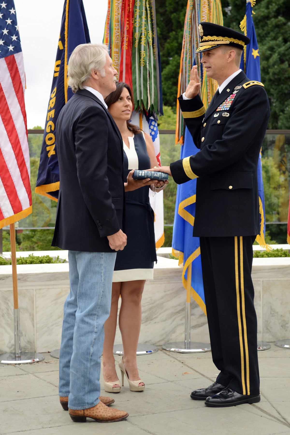 Oregon Governor John Kitzhaber (left) administers the oath of office to Oregon’s new adjutant general, Maj. Gen. Daniel R. Hokanson (right), as Kelly (center), the general’s wife, looks on during the investiture ceremony at the state capitol, in Salem, Ore., Aug. 1. Hokanson will direct, manage, and supervise the Oregon Military Department to include the administration, discipline, organization, training and mobilization of the Oregon National Guard, the Oregon State Defense Force, and the Office of Emergency Management. (Photo by Sgt. 1st Class April Davis, Oregon Military Department Public Affairs)